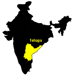 Spread of Telugu script and Telugu language (Indian state Andhra Pradesh)